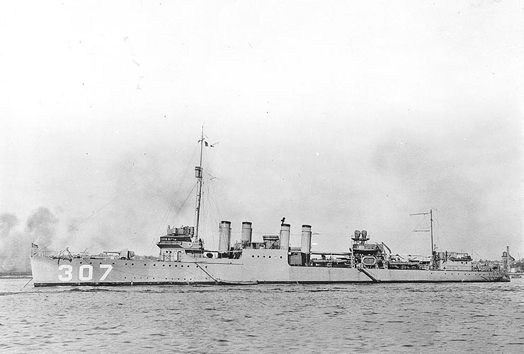 Removed caption read: Photo # NH 42813 USS Paul Hamilton at anchor, during the early 1920s